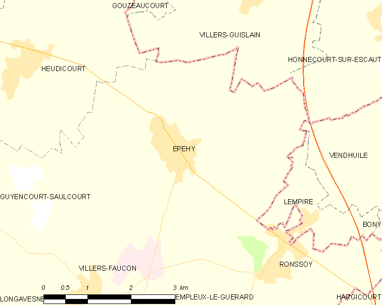 Map of French municipality Épehy